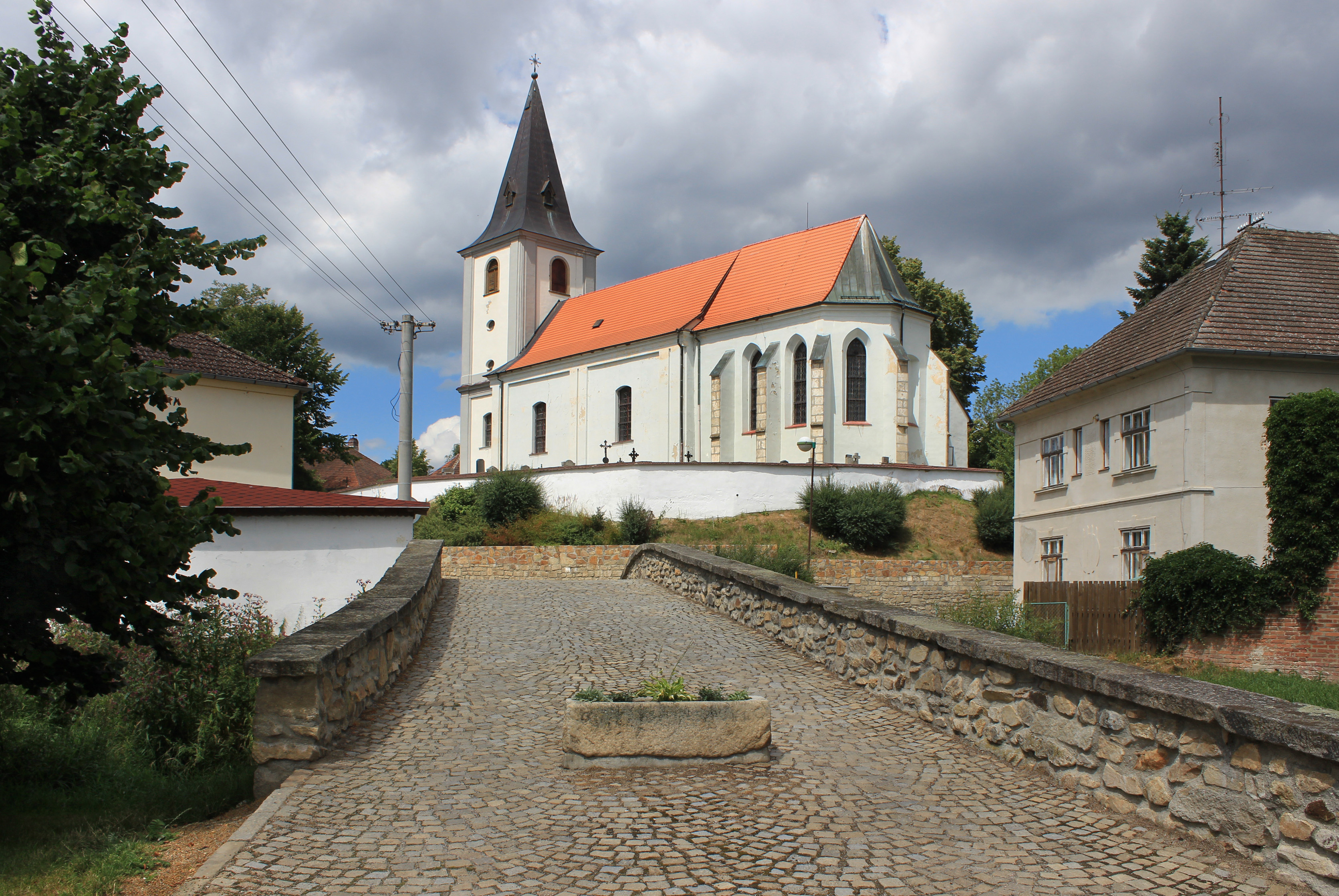 Protected bridge in Jarošov nad Nežárkou, Czech Republic.